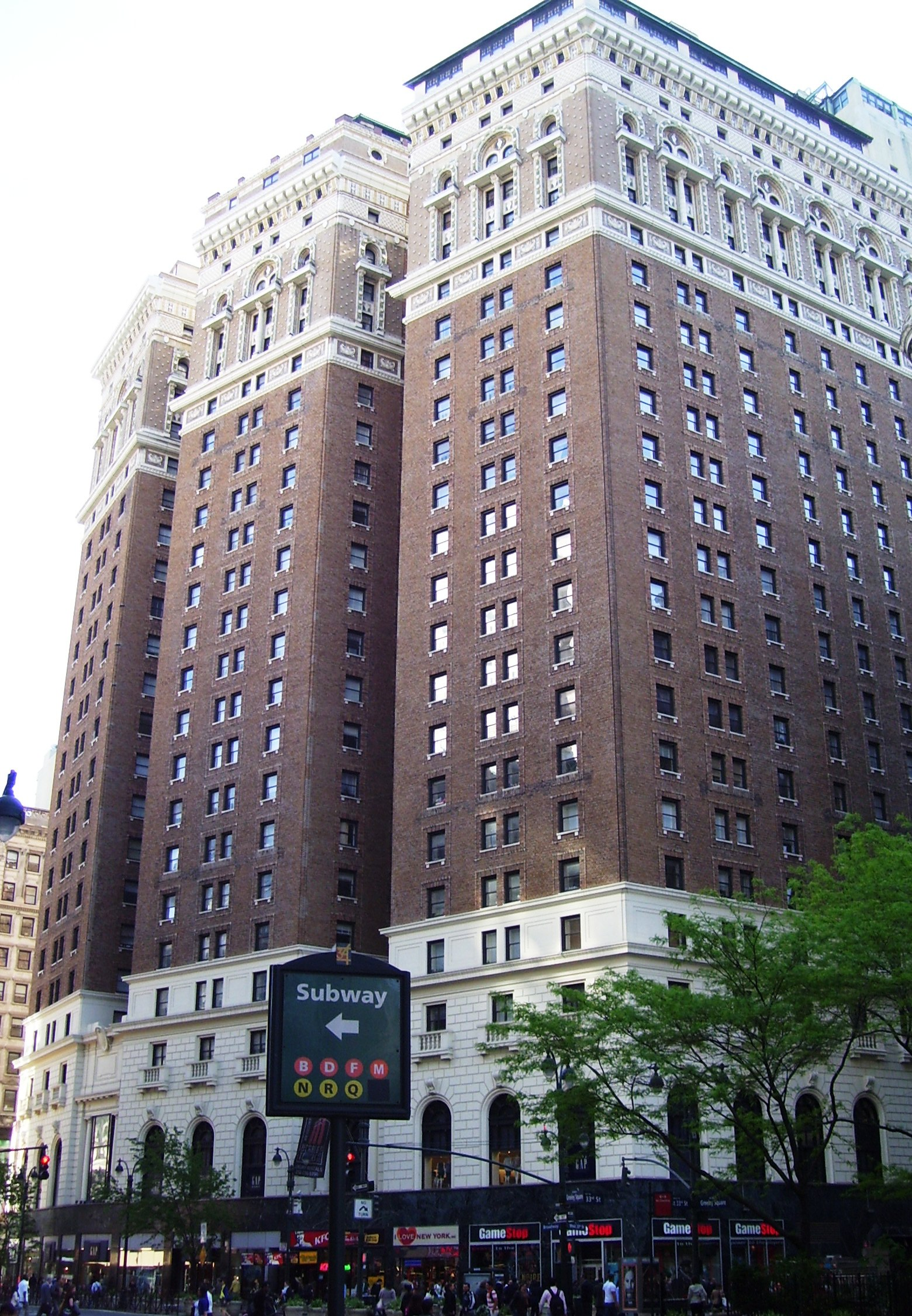 The Herald Towers apartment building at 1282 Broadway on the full block between East 33rd and 34th Streets off of Herald Square in Manhattan, New York City, was built in 1912. (Source: NYC GIS map)